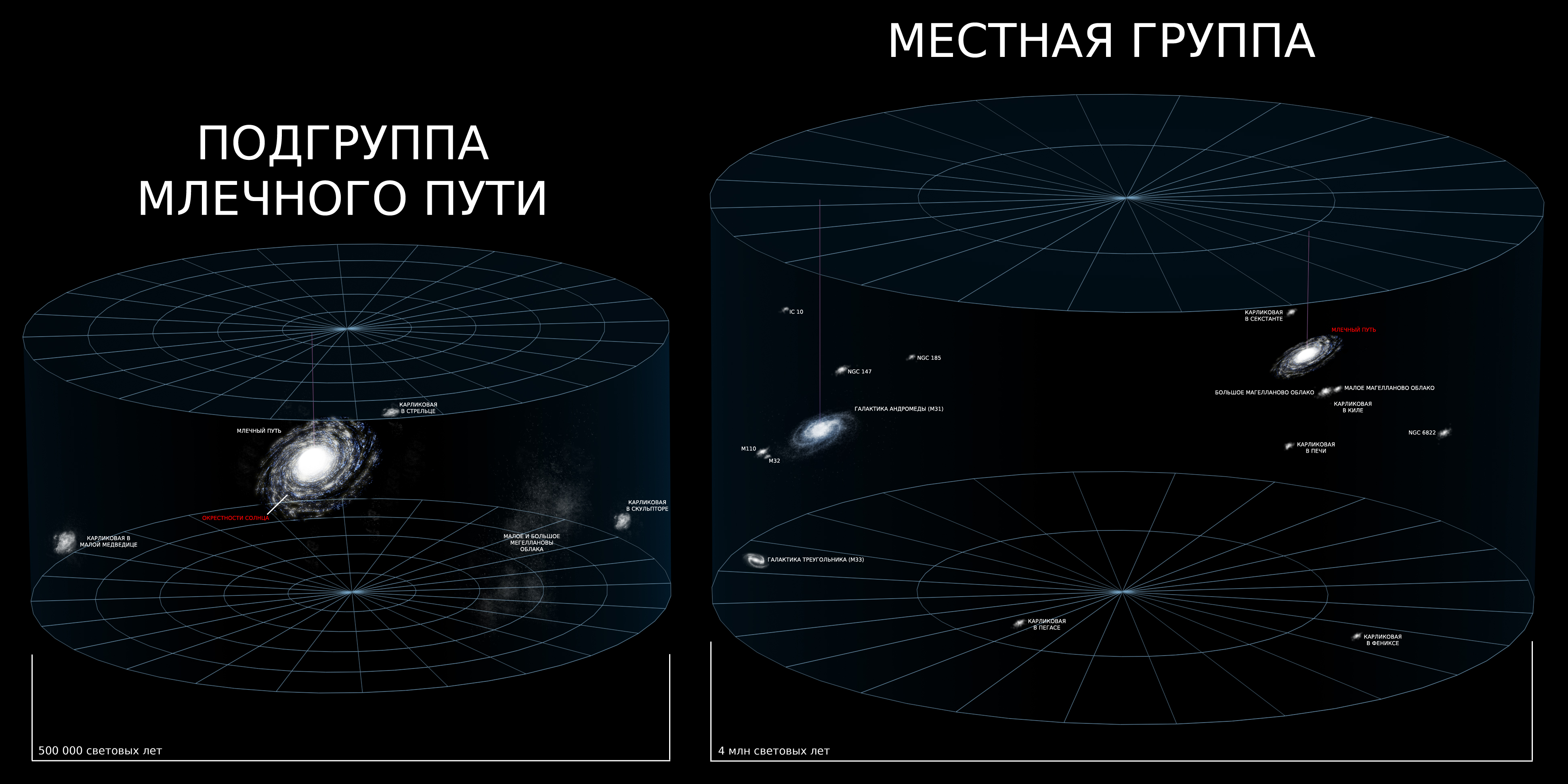 A diagram of our location in the Local Group of galaxies.